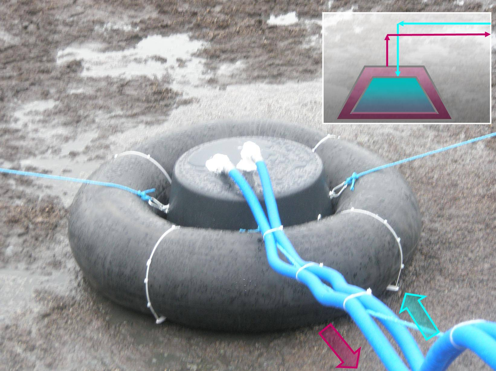 Odour_Sampling 7